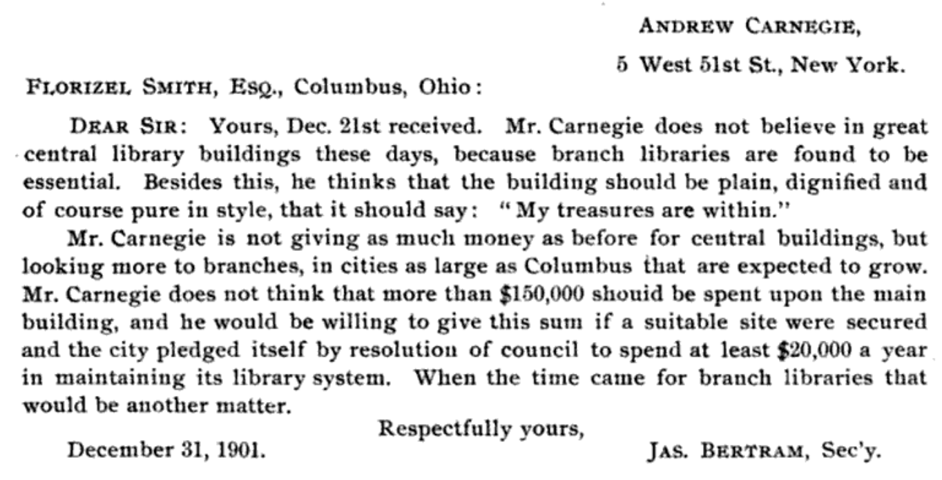 Letter from Carnegie's secretary approving a Carnegie library in Columbus, Ohio.